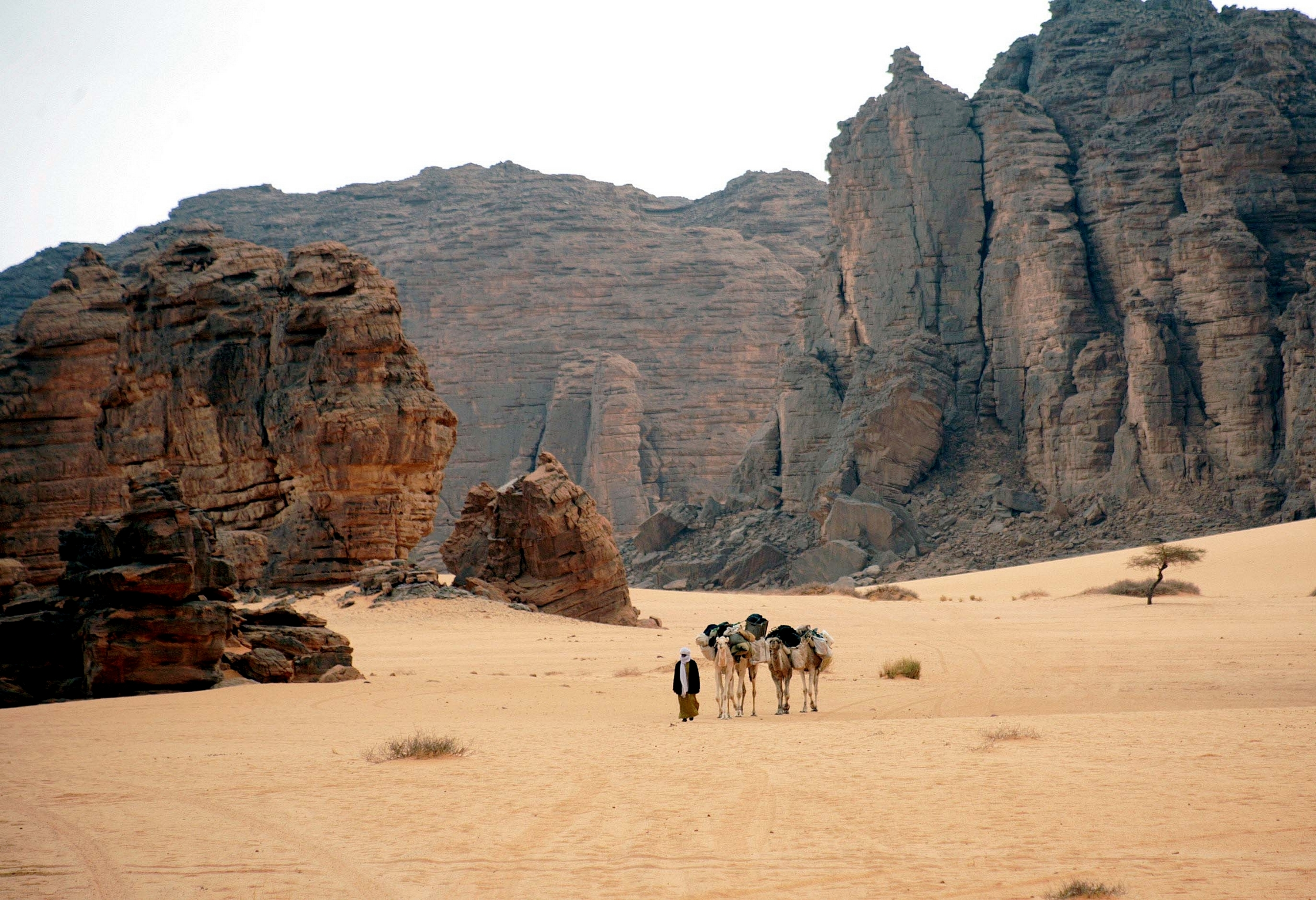 Algerian desert - Tassili National Park